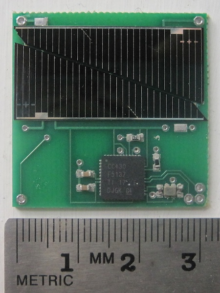 Prototype of a KickSat Sprite - a ChipSat proof of concept design for the KickSat project